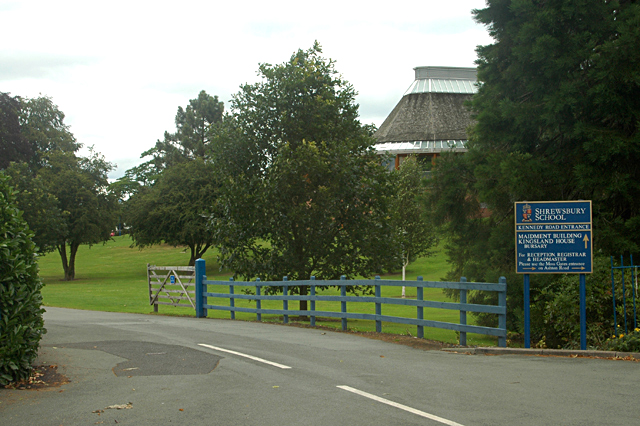 Shrewsbury School - Kennedy Road Entrance